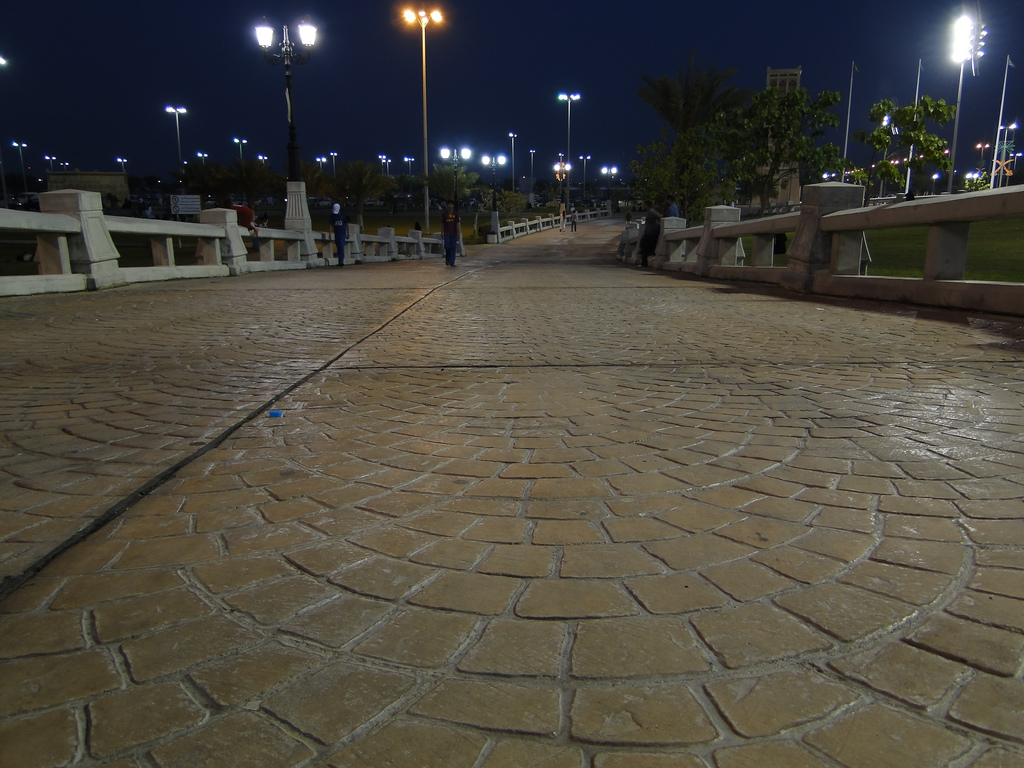 Dammam Corniche